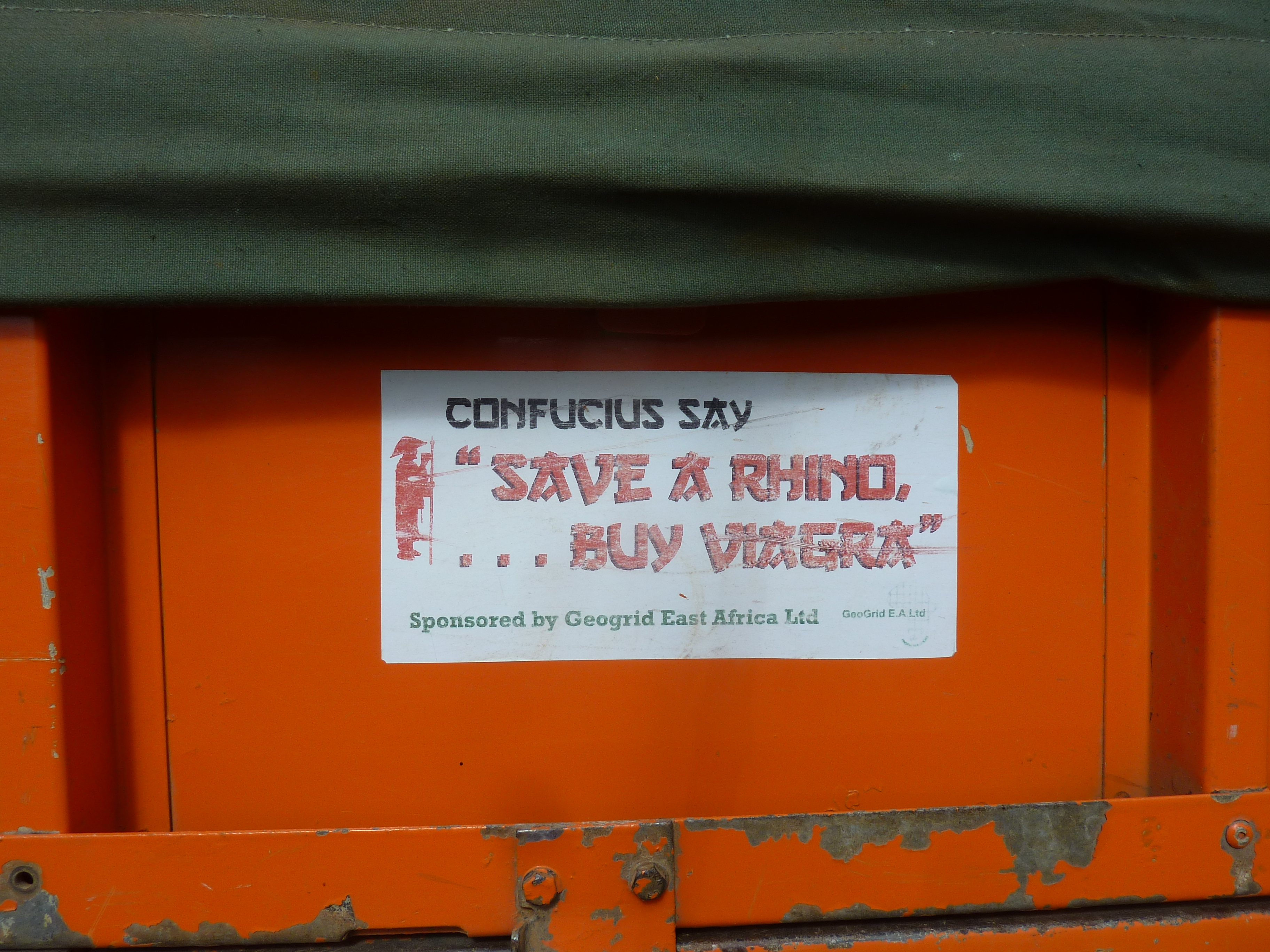 This is an image with the theme "Africa on the Move or Transport" from: Kenya